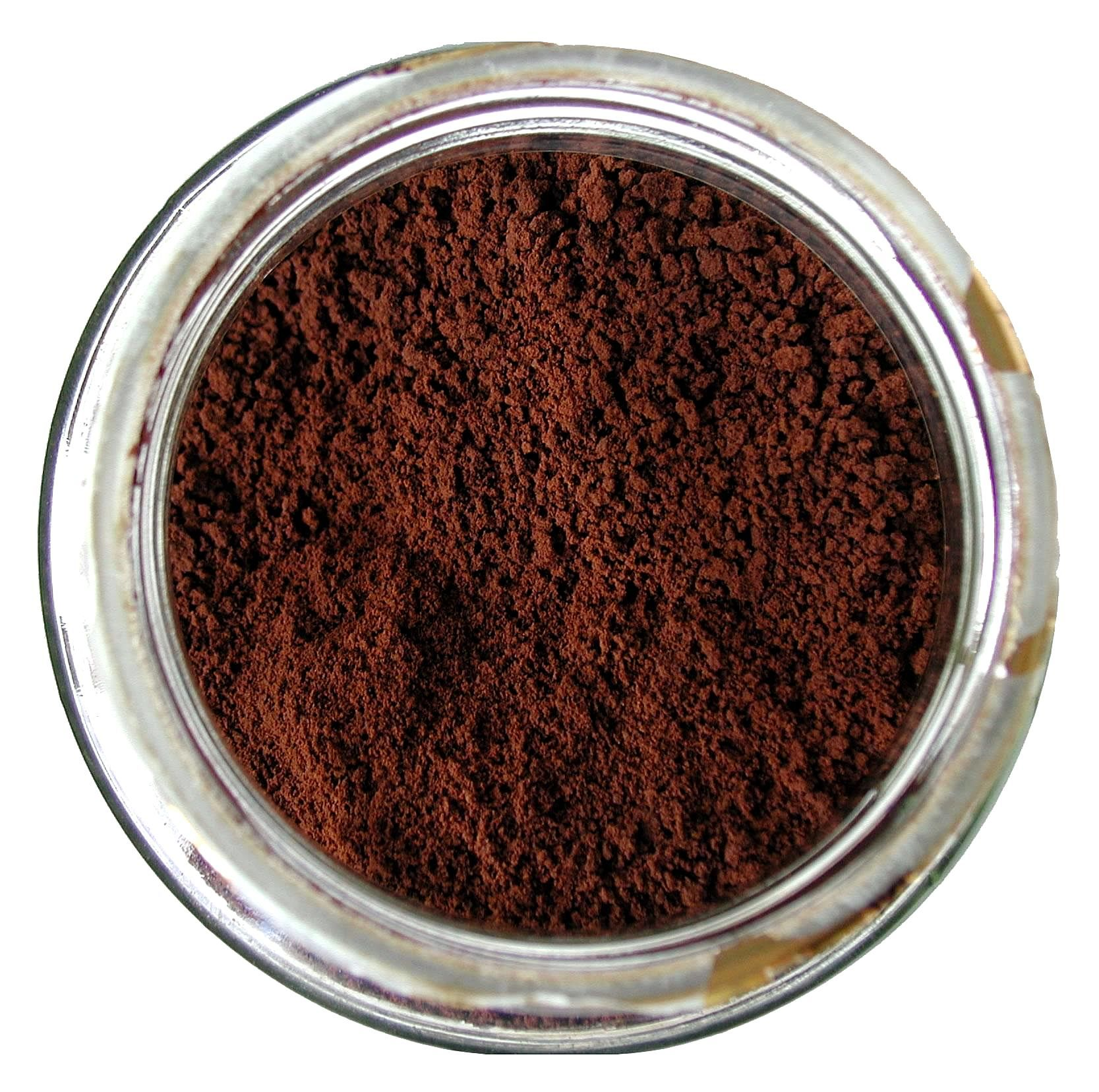 Image title: Coffee Image from Public domain images website